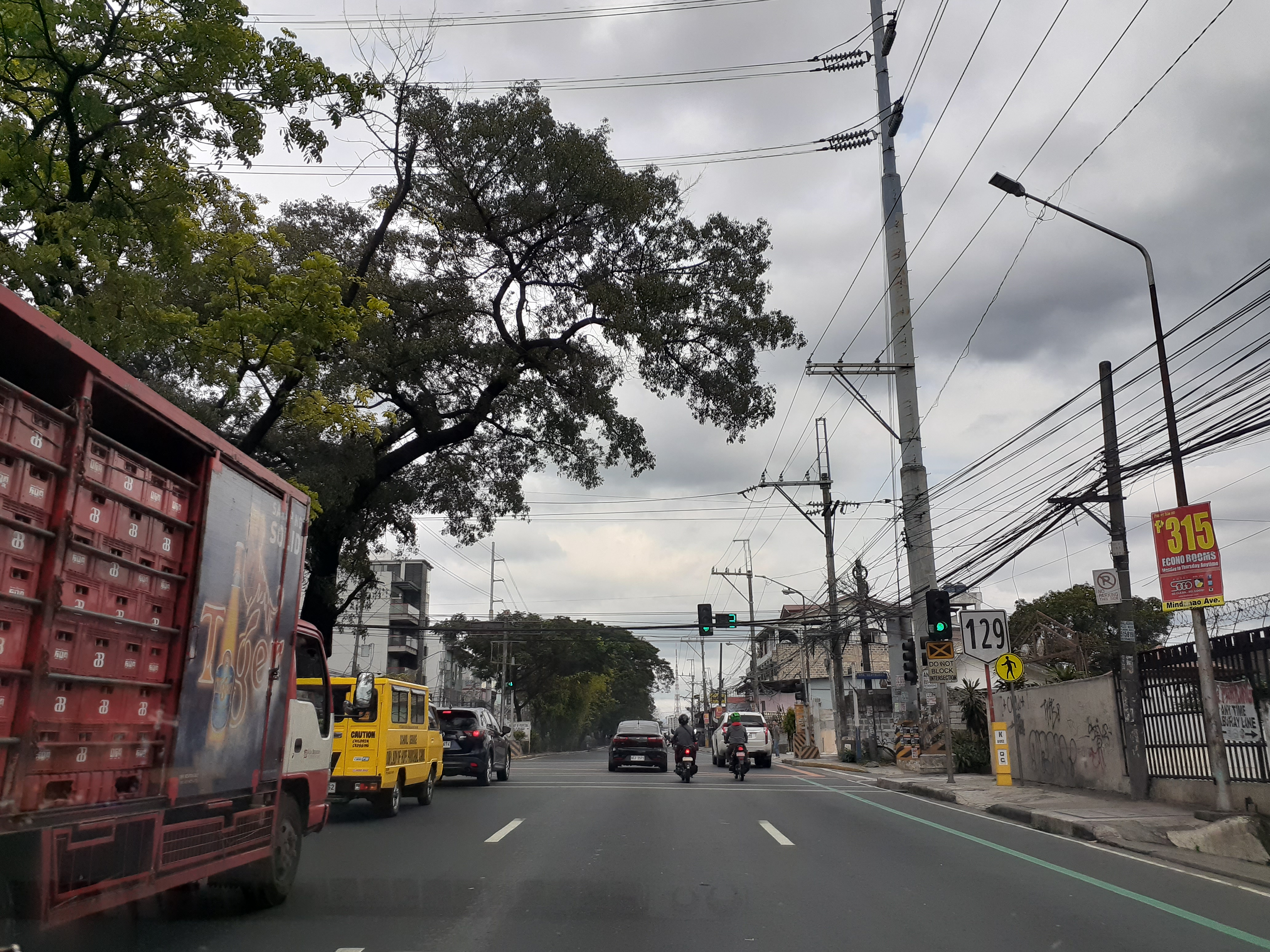 Congressional Avenue eastbound just approaching Sta. Gertrudes Street intersection. Notice the marker sign for N129 of the Philippines highway network (DPWH's Route Numbering System) to the right of the photograph.